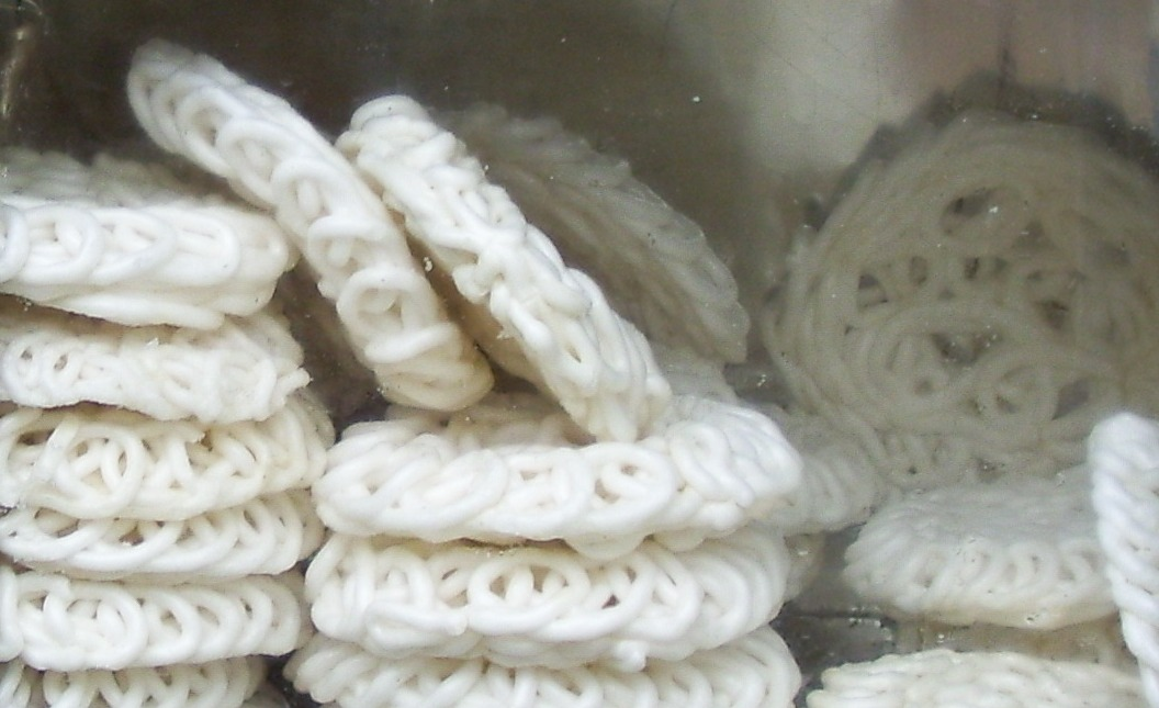 Indonesian crackers made of tapioca flour, salt flavor